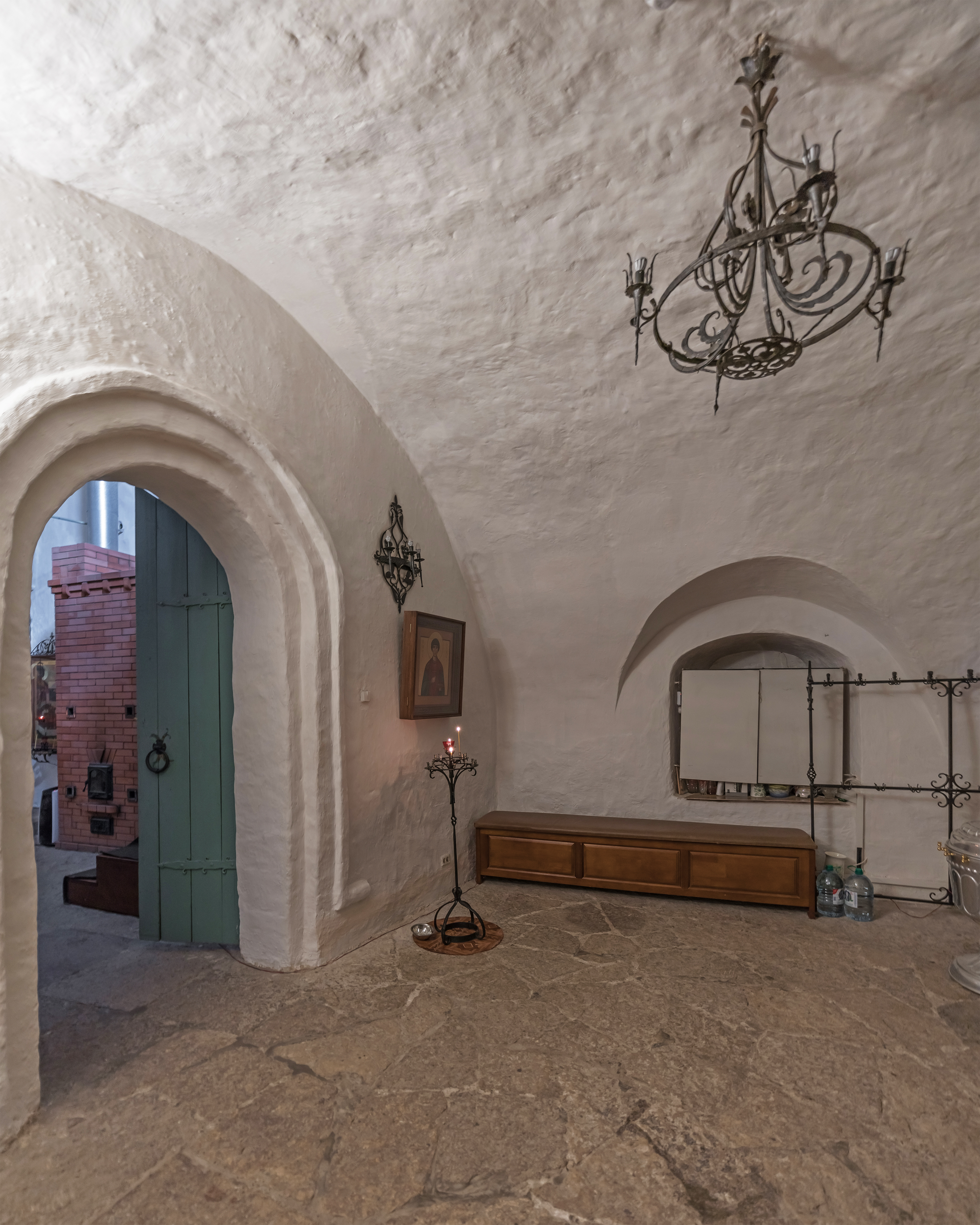 Interior of Intercession Church «at Prolom» in Pskov, Russia